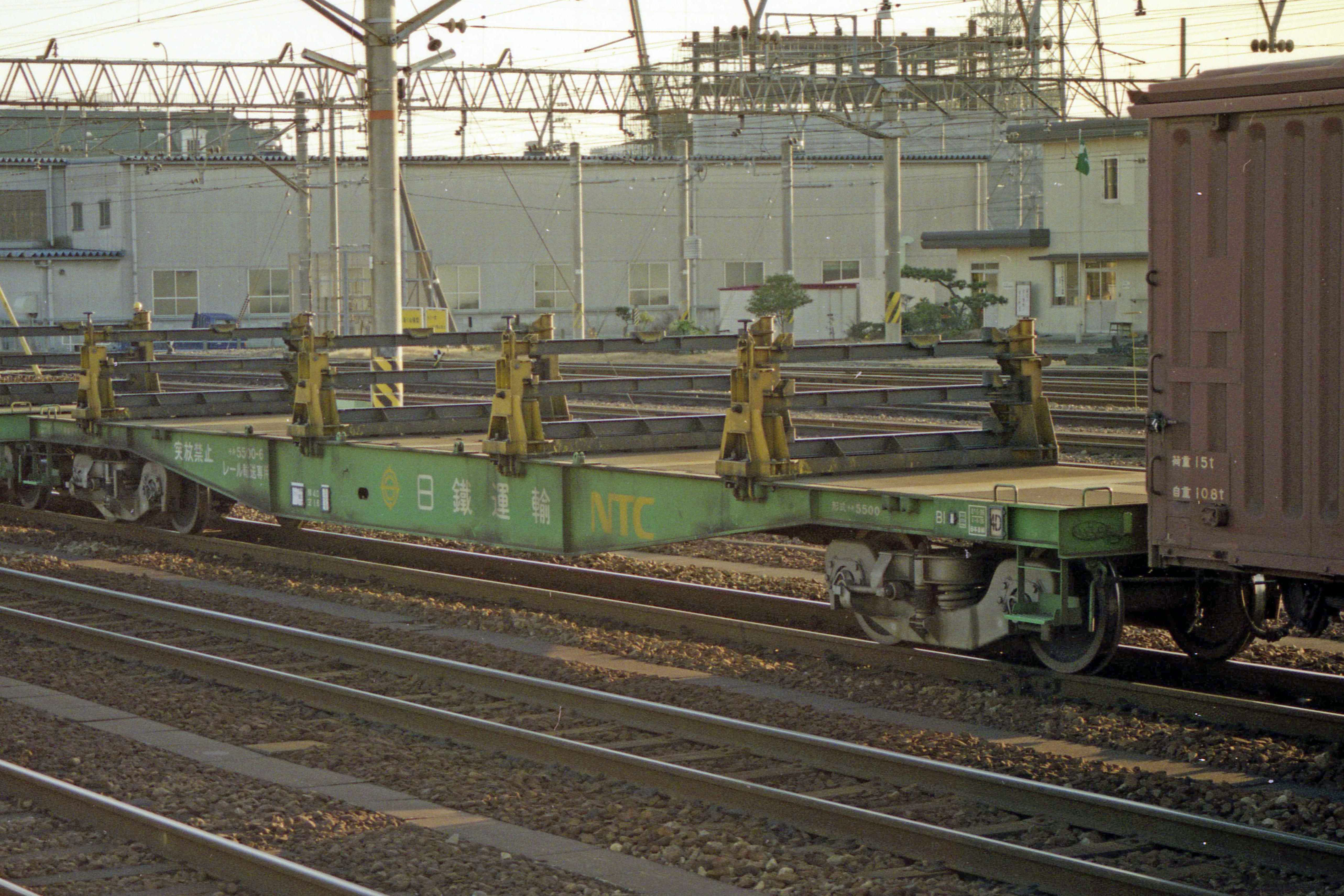 JR Freight ChiKi 5500 flat car ChiKi 5500-6